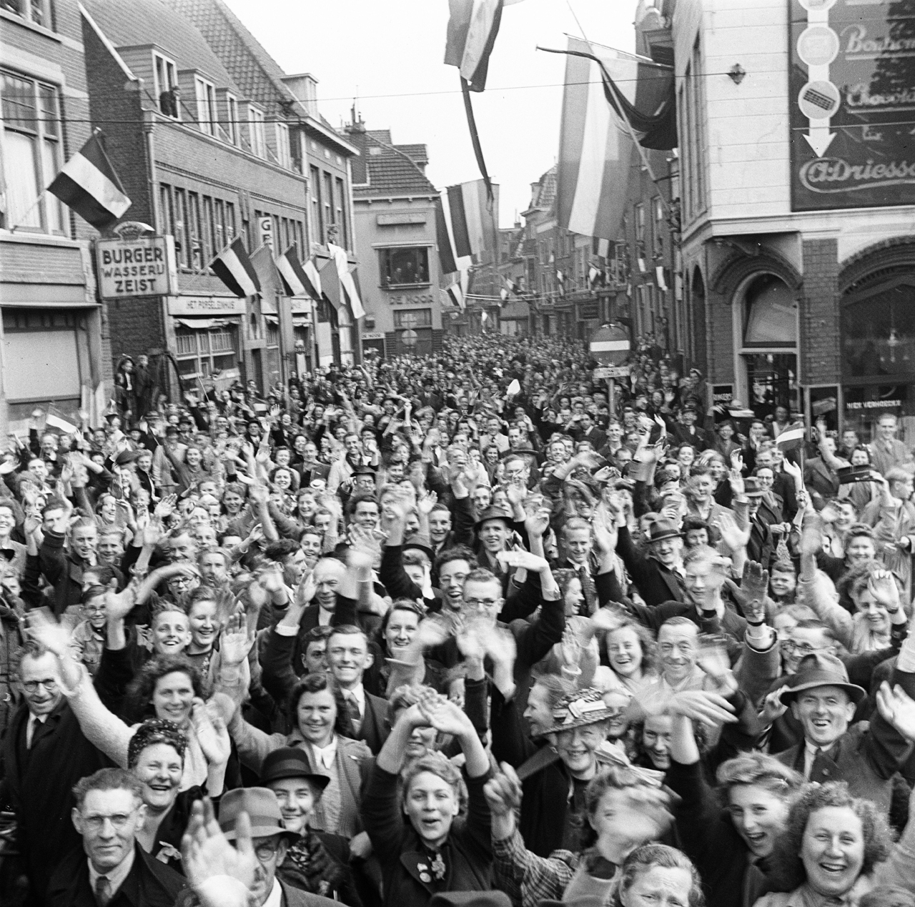 Nationaal Archief Beschrijving: Een uitzinnige menigte verwelkomt de Geallieerden (49e Canadese infanterie divisie) bij hun intocht in Utrecht. Datum: 7 mei 1945 Vervaardiger: Anefo / Poll, Willem van de Bestanddeelnummer: 900-2820 URL: Voor meer informatie over het Nationaal Archief: Voor meer foto's uit deze en andere collecties, bezoek onze Beeldbank:, U kunt ons helpen onze kennis van de fotocollecties te verrijken door tags en commentaren toe te voegen. Herkent u mensen of locaties of heeft u een bijzonder verhaal te vertellen bij één van de foto's, laat dan een reactie achter (als u ingelogd bent bij Flickr) of stuur een mailtje naar